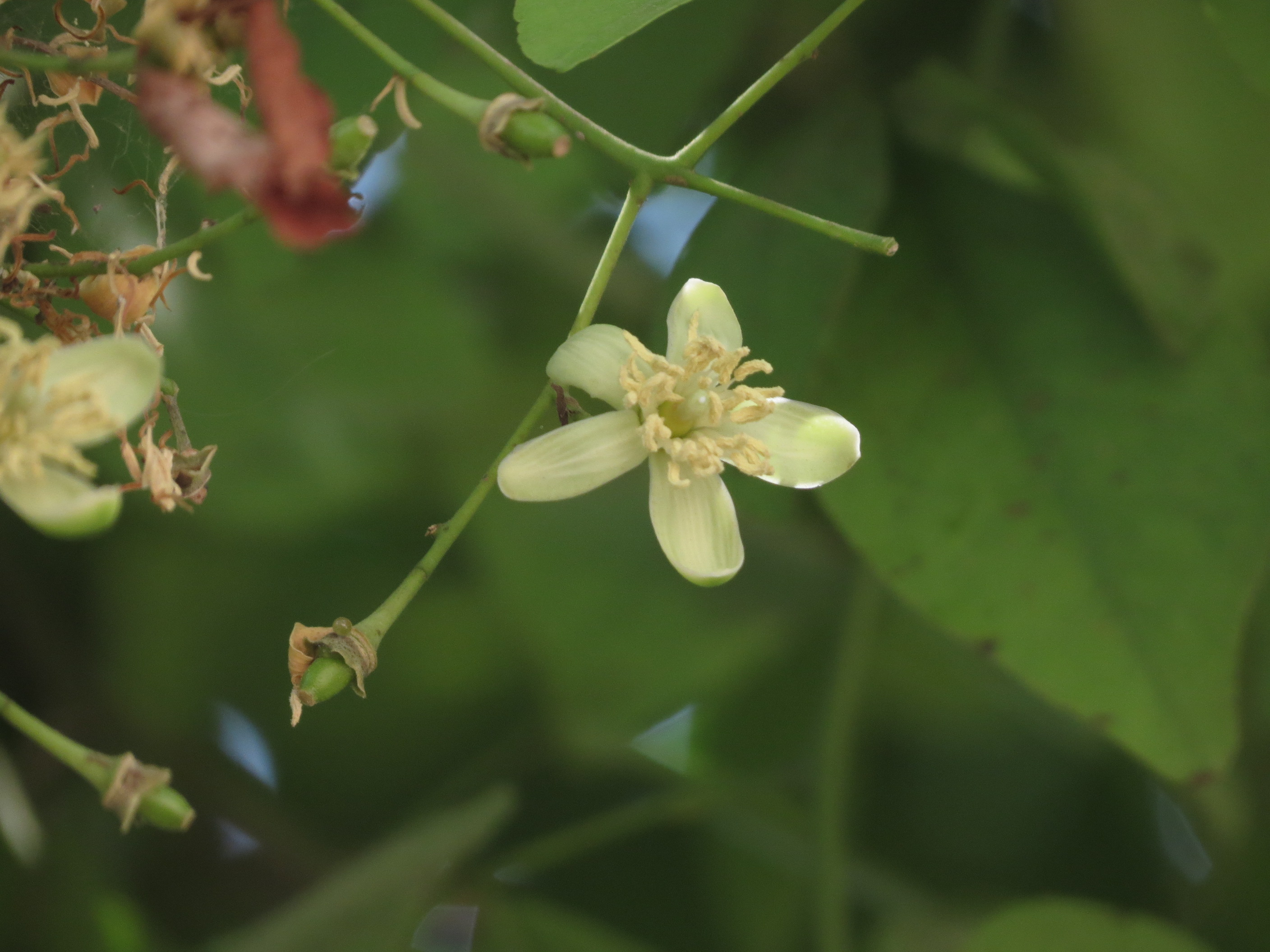 Aegle marmelos flower seen in kasavanahalli Bangalore